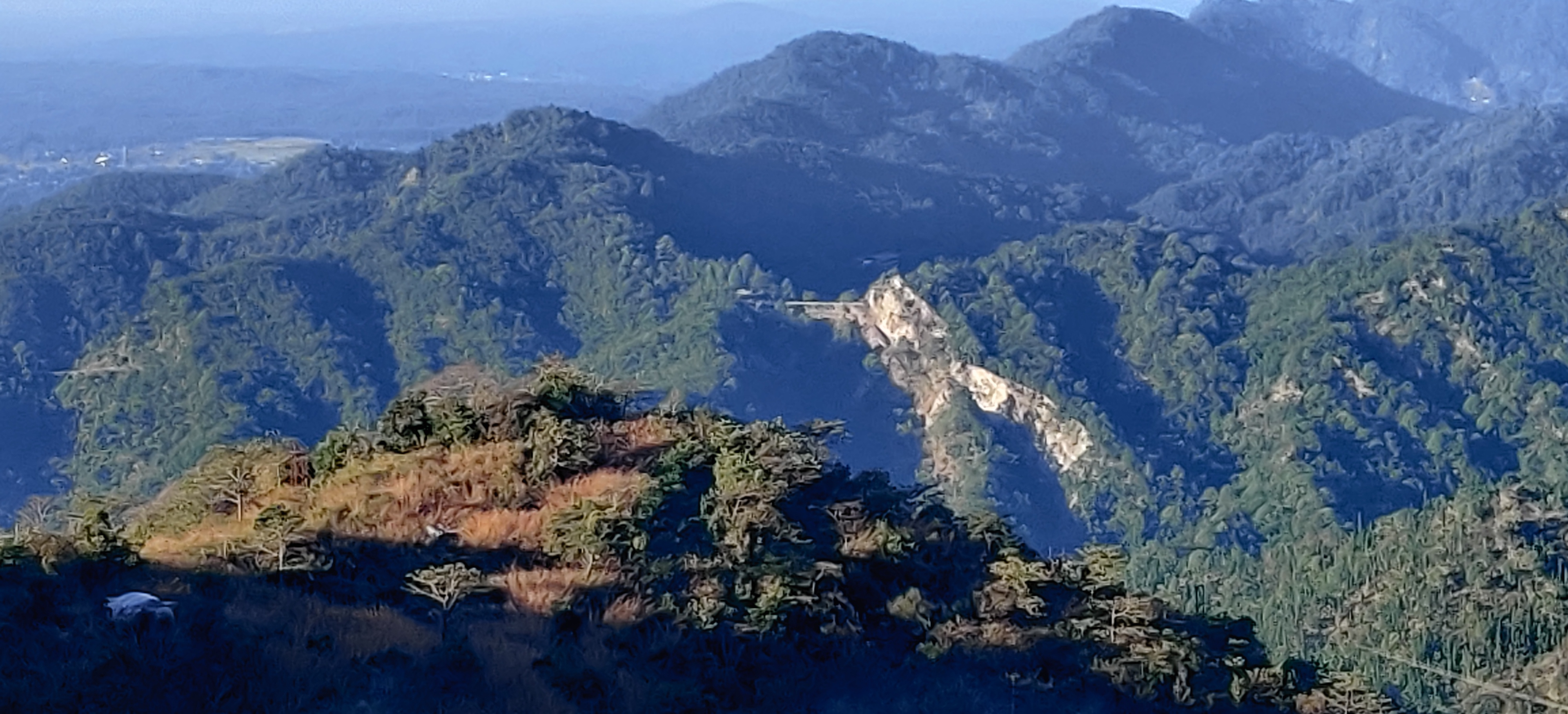 view from Dehradun mussoorie road